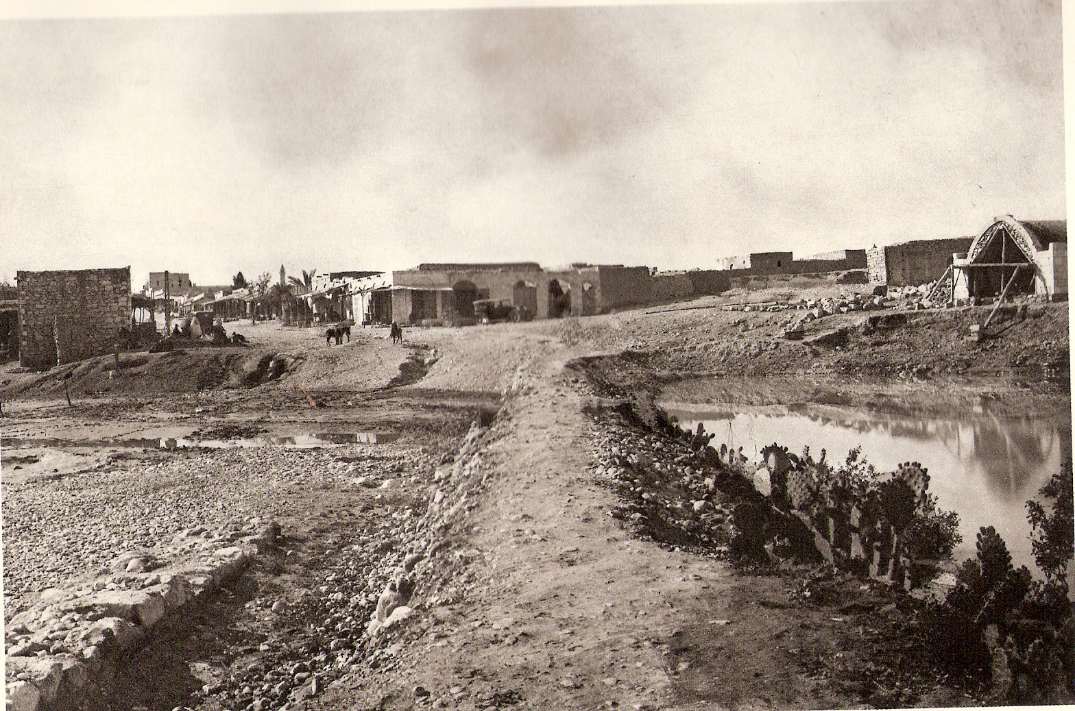 A view of Beesheba taken in the 1920s. One of over 200 photographs from the book Palästina und das Ostjordanland taken in Palestine and Transjordania during the British mandat in the Middle East